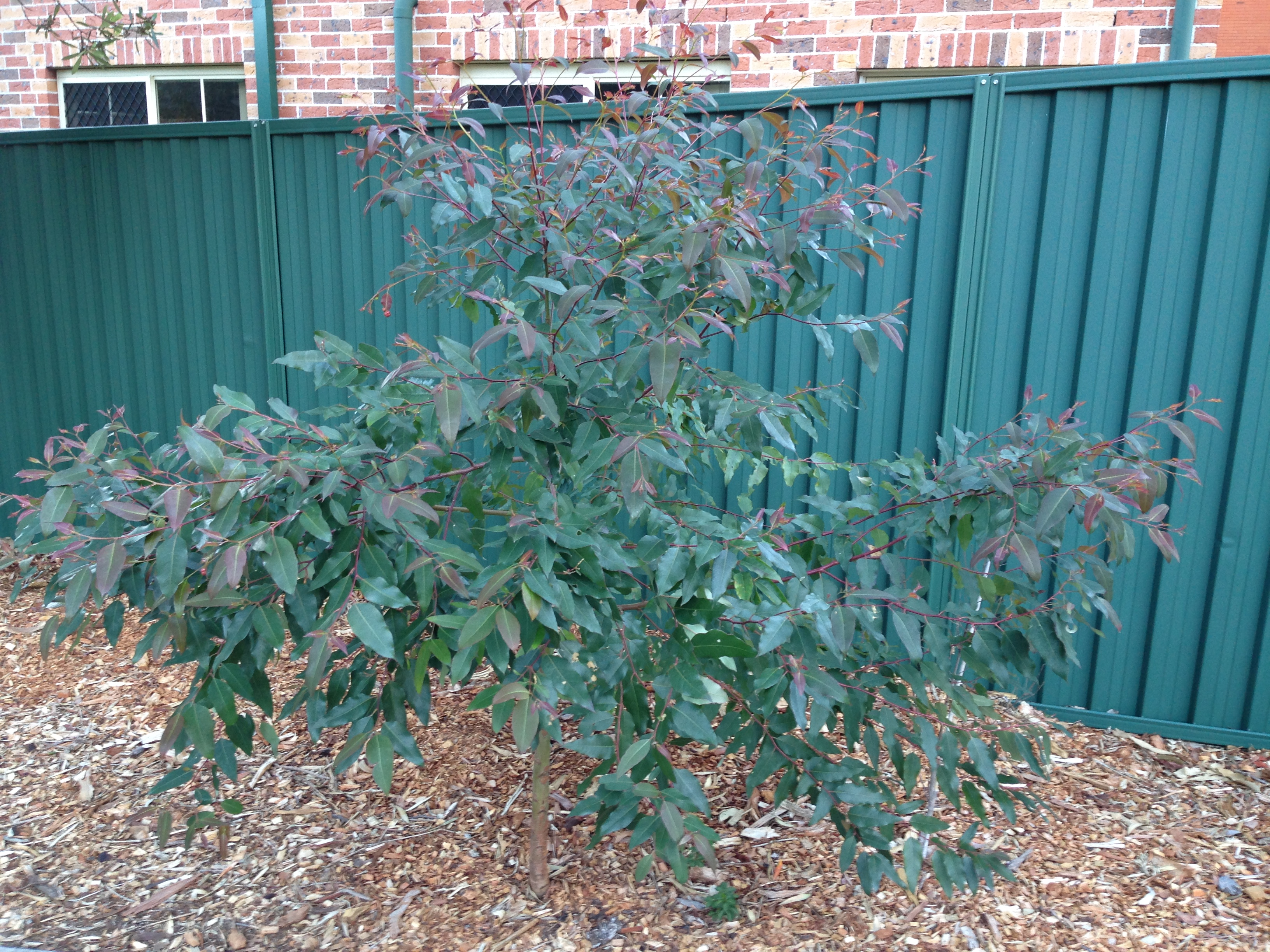 A small tree in a park